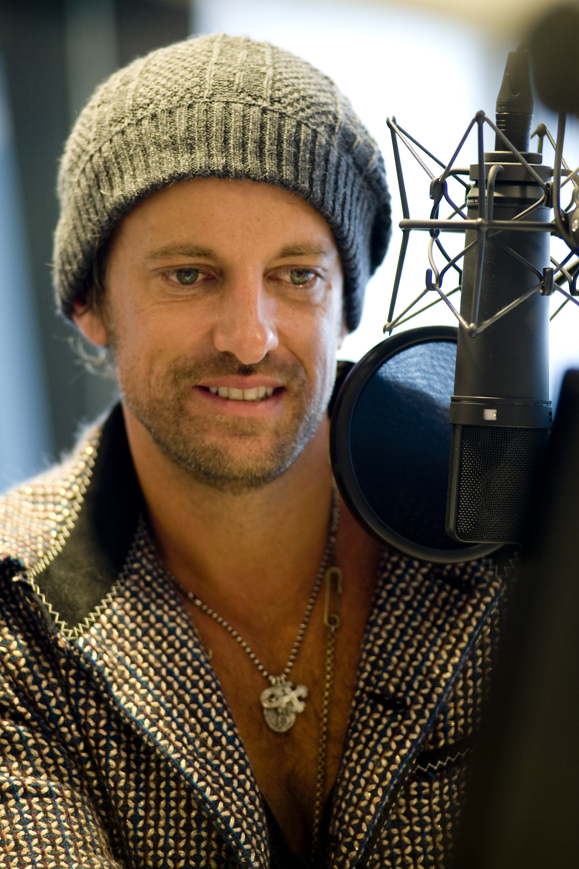 Daniel Powter at studio of Radio Pilatus in Lucerne, Switzerland.